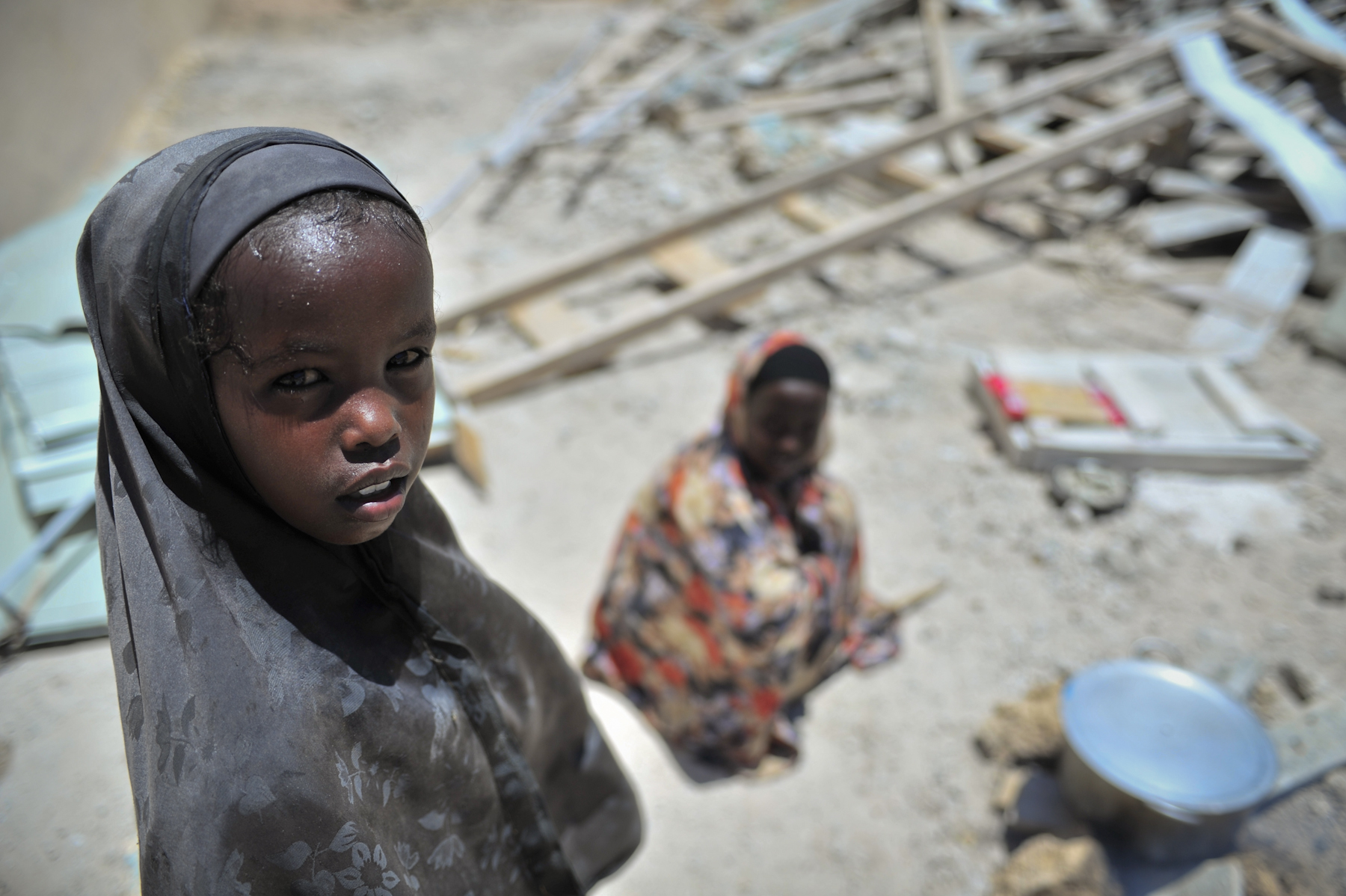 Two girls help to prepare food for builders working on Haji Mohamud Hilowle Primary School in Wadajir district, Mogadishu. The school is part of AMISOM's humanitarian mission in Somalia and is being constructed with funds donated by the Danish government. AU-UN IST PHOTO / TOBIN JONES.